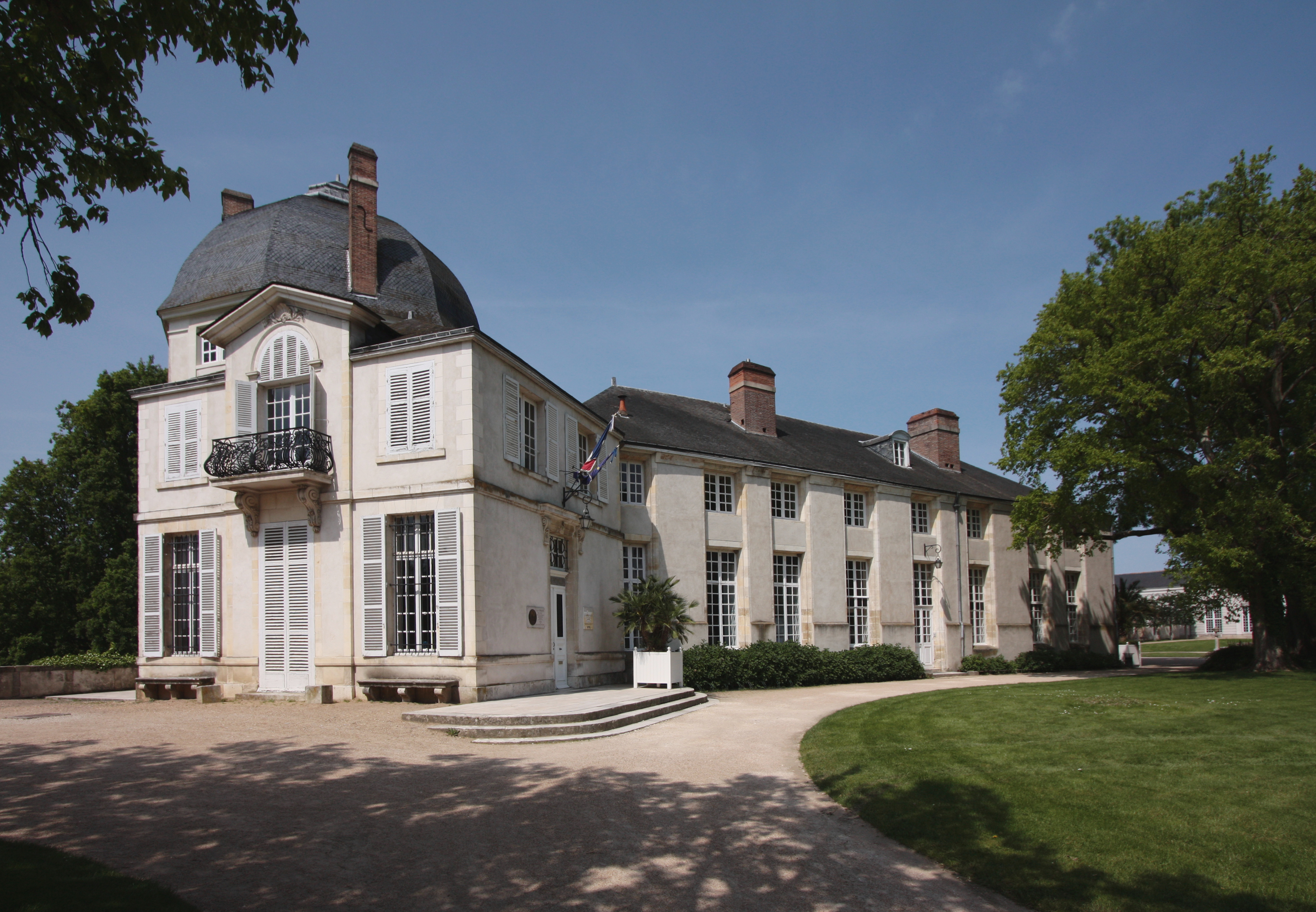 Remaining building of Castle Chateauneuf, located in the town of Chateauneuf-sur-Loire, Département Loiret/France